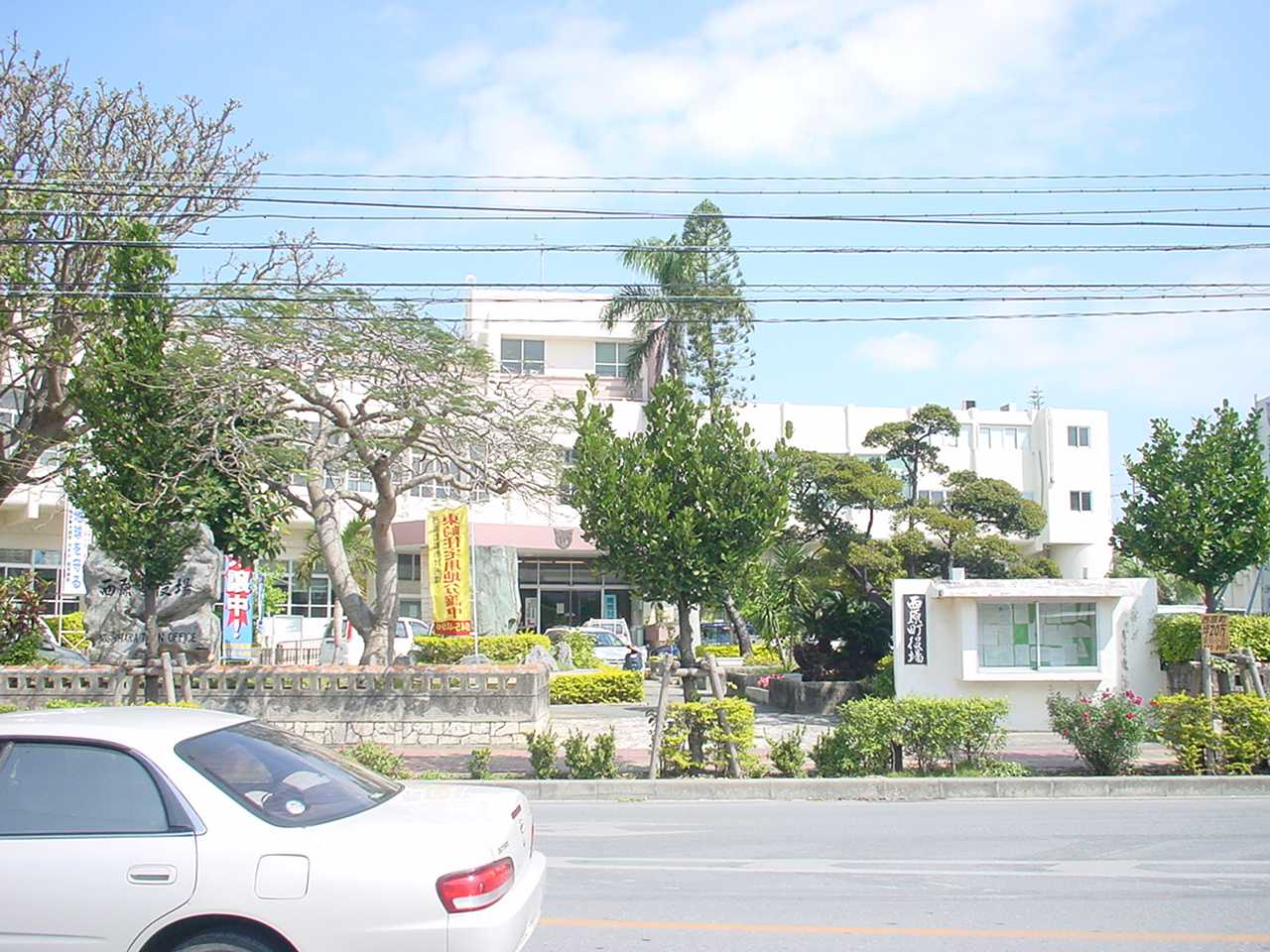 The office building of Nishihara, Okinawa, Japan.